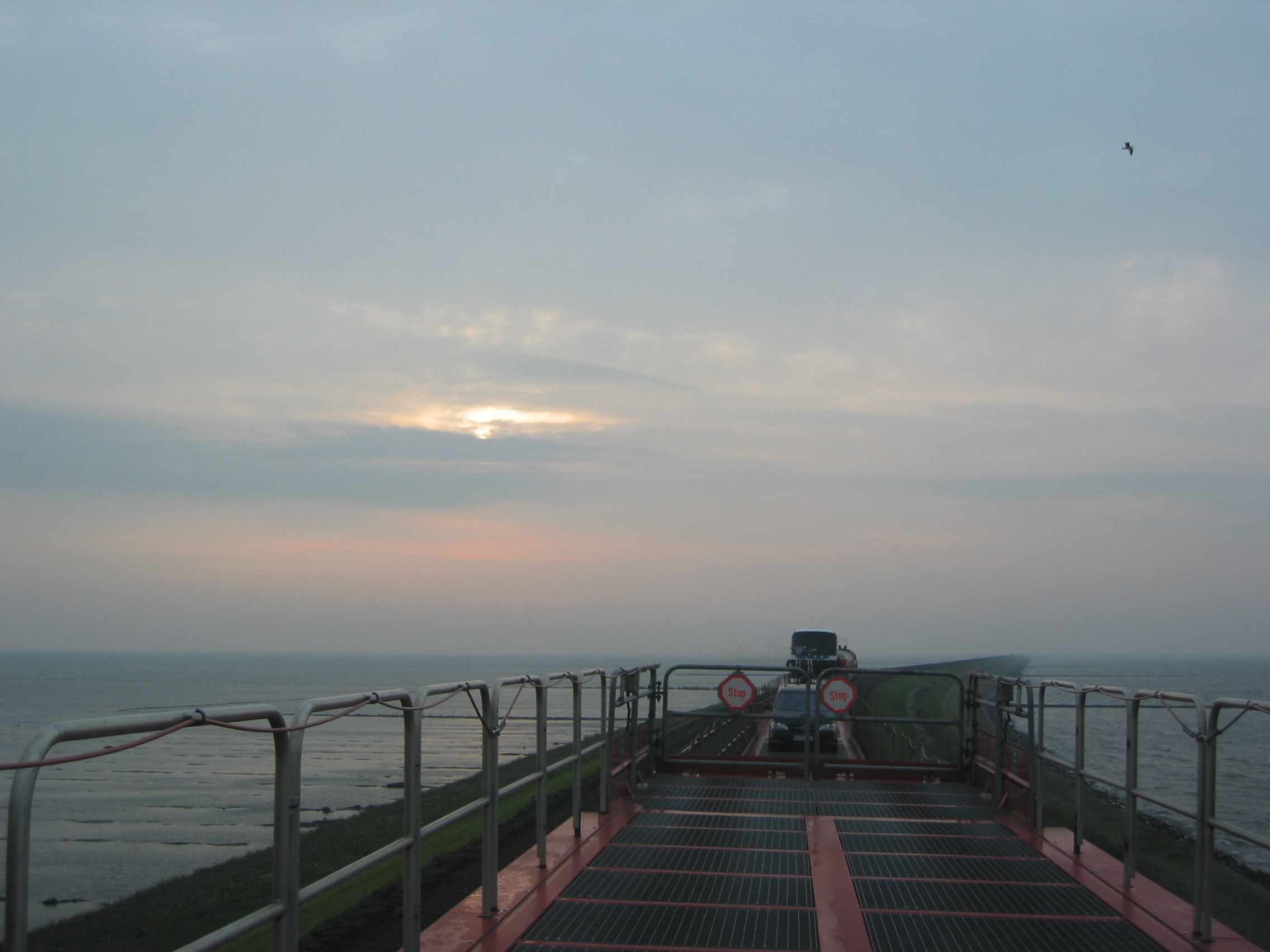 Train carrying cars over the Wadden Sea, Sylt, Germany, May 2003.